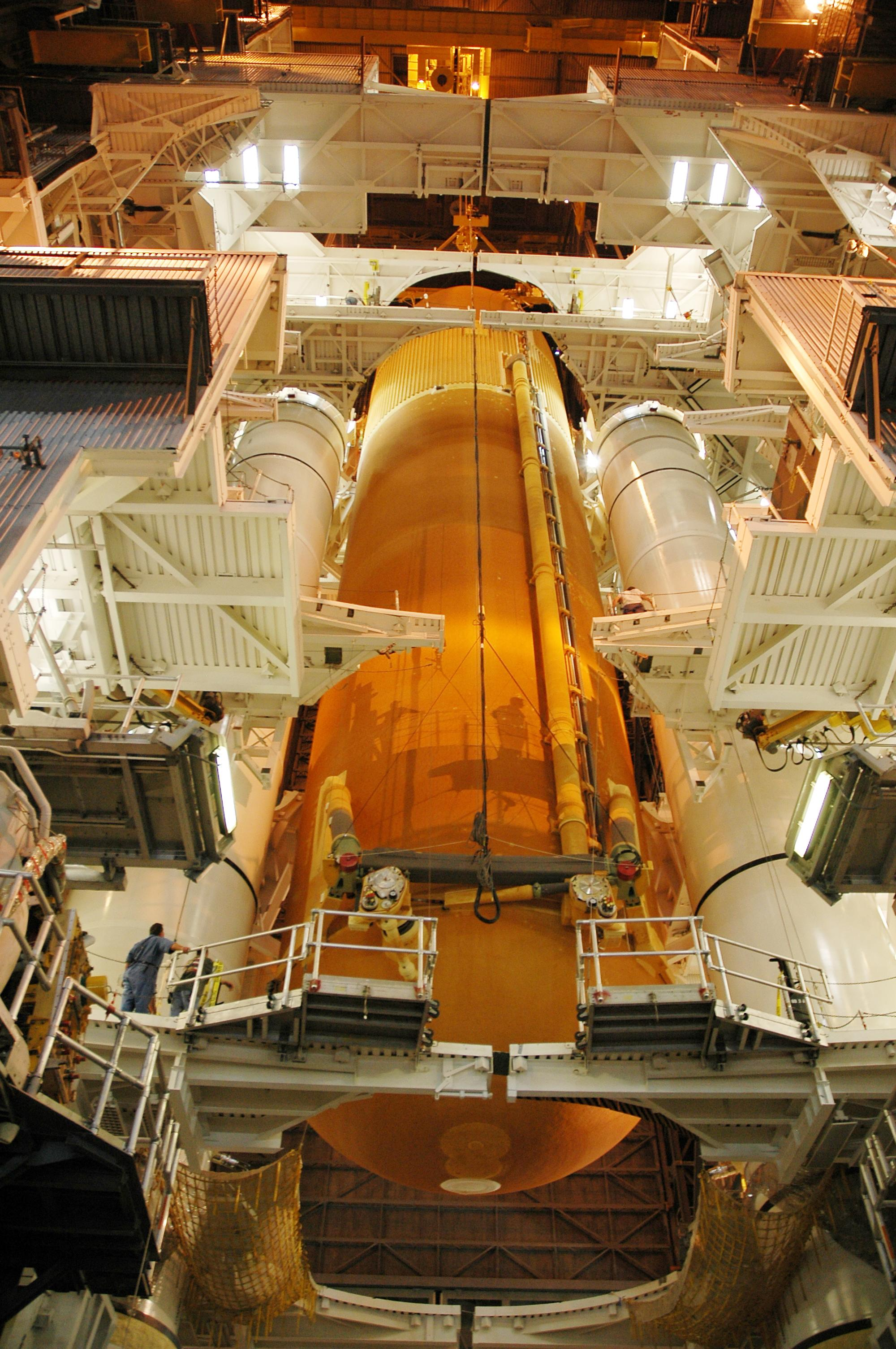 In high bay 3 of the Vehicle Assembly Building, the external tank designated for Space Shuttle Discovery is lowered into position between the solid rocket boosters on the mobile launcher platform. Discovery is scheduled to launch on mission STS-121 in July.